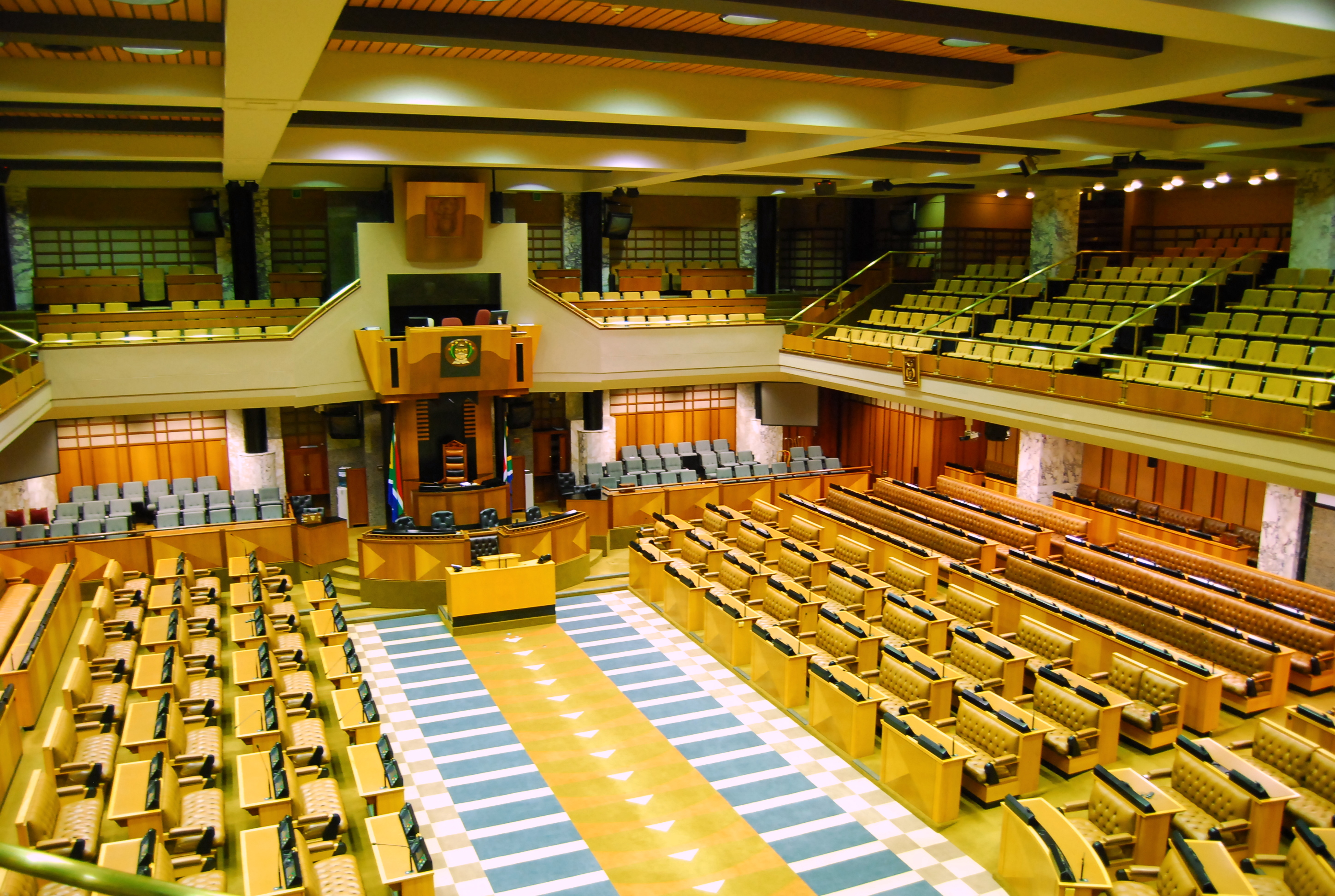 National Assembly of South Africa